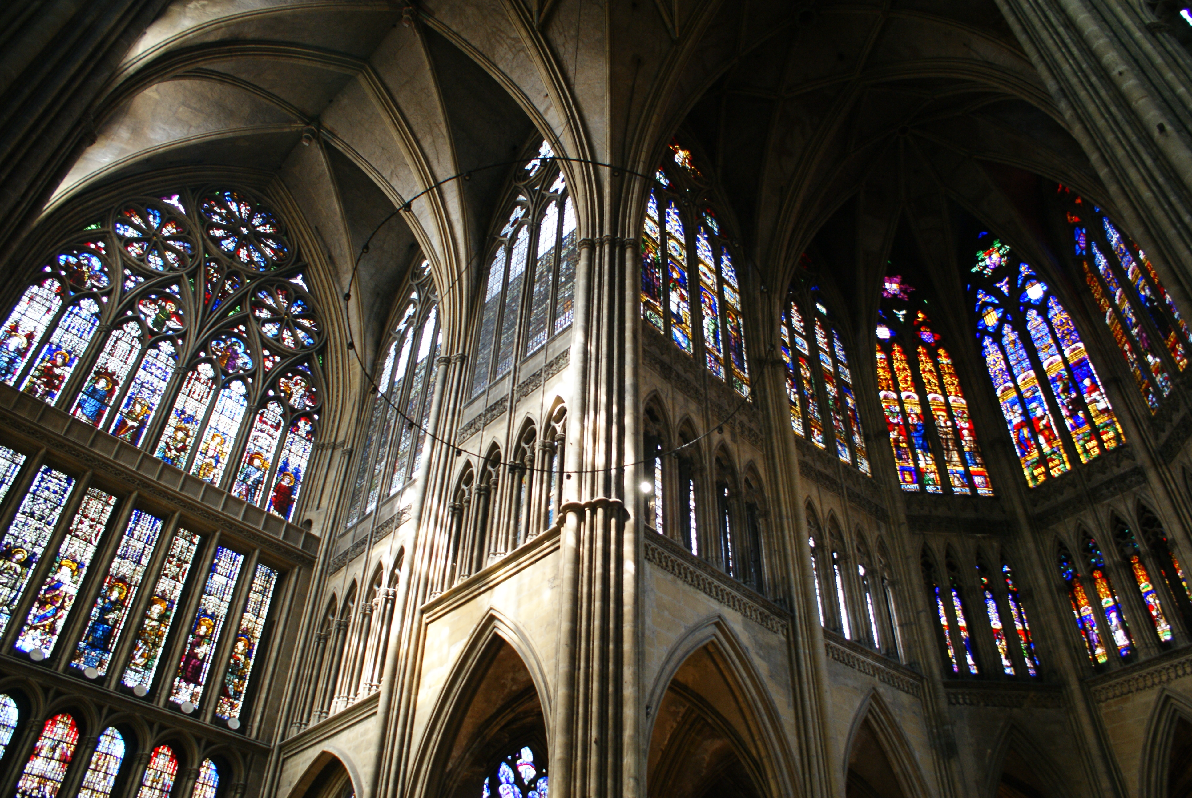 Cathedral of Metz